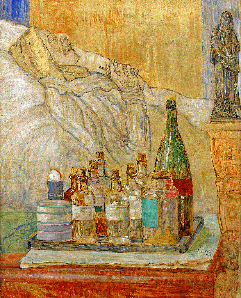 Ma mère morte, 1915, oil on canvas, 75 x 60 cm, Kunstmuseum aan Zee, Ostend